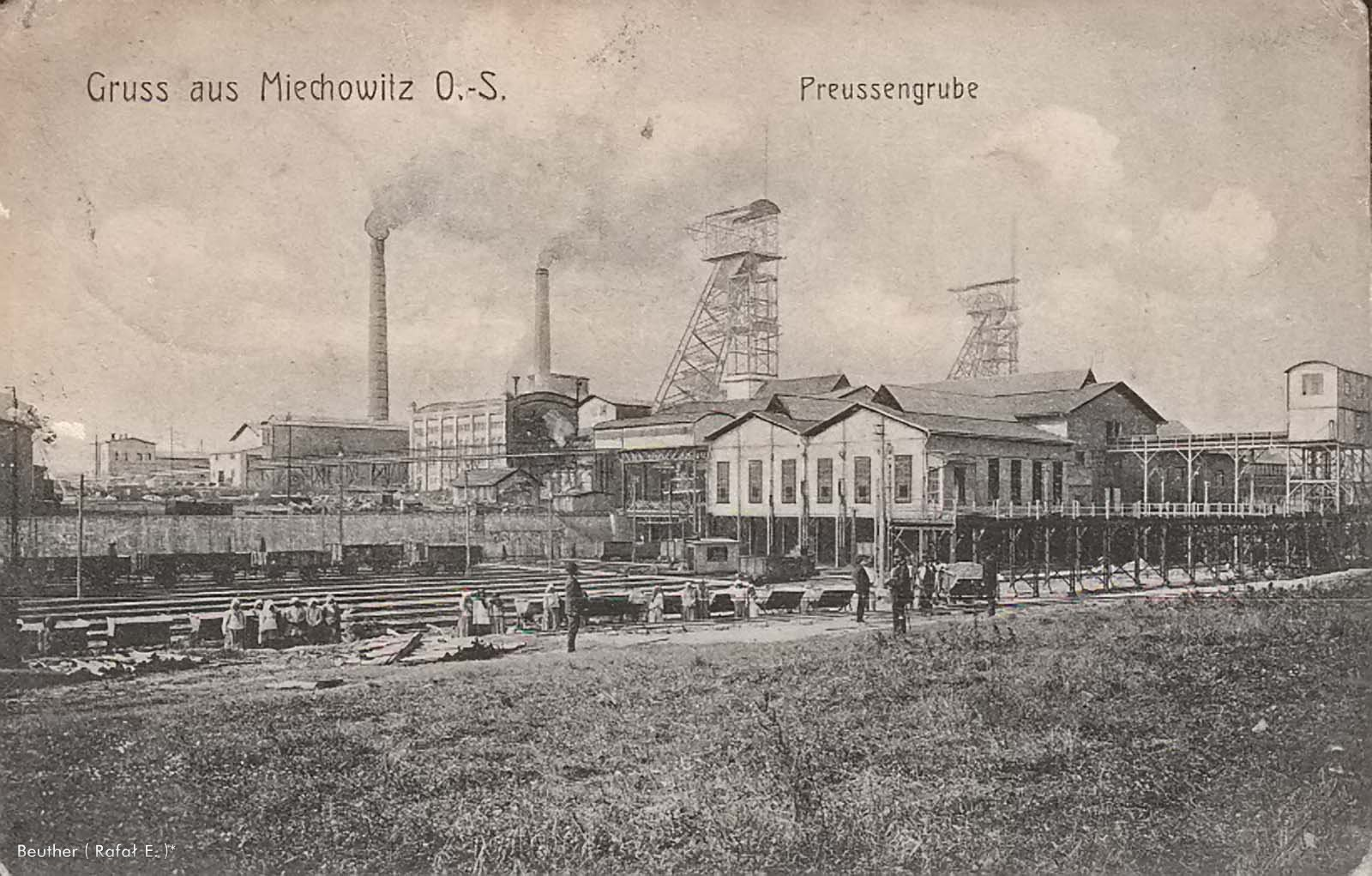 Preussengrube (later name Miechowice) - a postcard depicting a Miechowice Coal Mine in Bytom, ca. 1913.